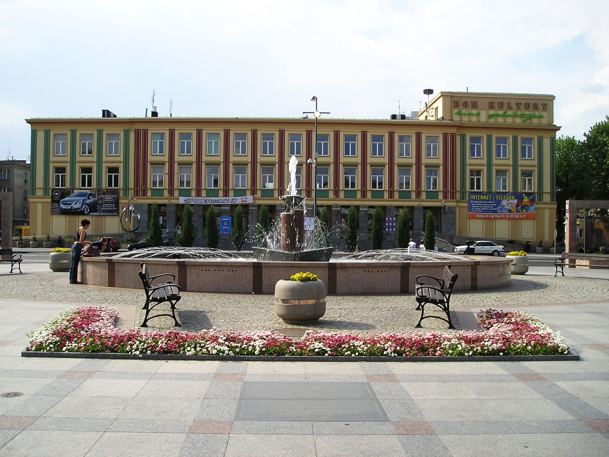 Square of Armia Krajowa (Home Army) in Mielec, Poland